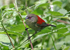 A male Abyssinian Crimson-wing (Cryptospiza salvadorii), Mount Meru, Tanzania. Note that the full resolution version is copyrighted; only this resolution or smaller is freely licensed.